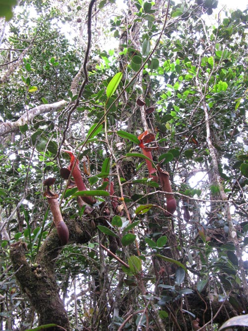 N.edwardsiana